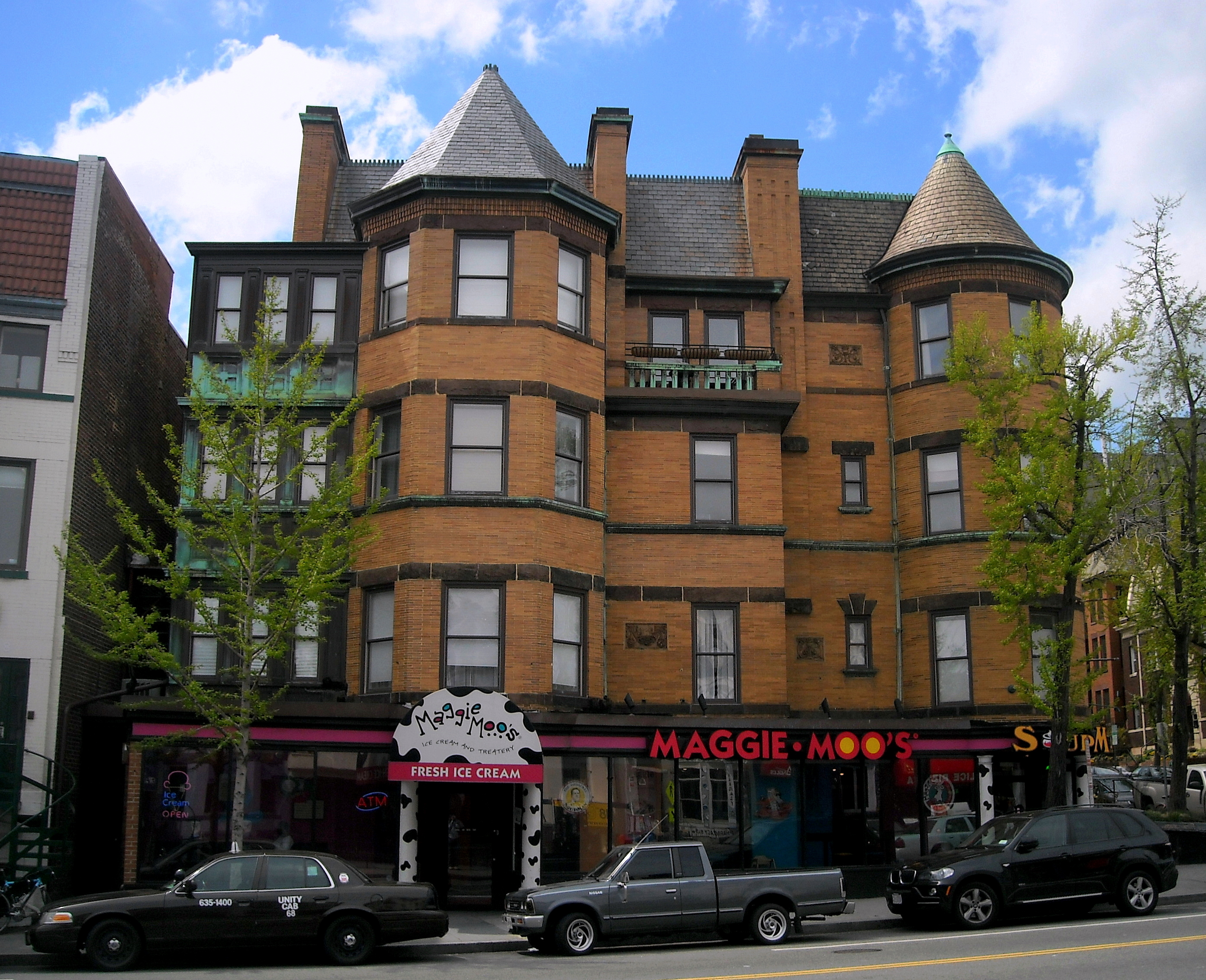 The Belmont Lofts (known as the Belmont Arts Building until 2001) located at 1800 Belmont Road, NW in the Adams Morgan neighborhood of Washington, D.C. Designed by local architect George S. Cooper in 1900, the Queen Anne building is a contributing property to the Washington Heights Historic District. Notable past tenants include author Mírzá Aḥmad Sohráb and John H. Edwards, an Assistant Secretary of the Treasury. The first floor retail space (2322 18th Street, NW) is currently leased to a MaggieMoo's franchise. The remaining floors serve as residential units.